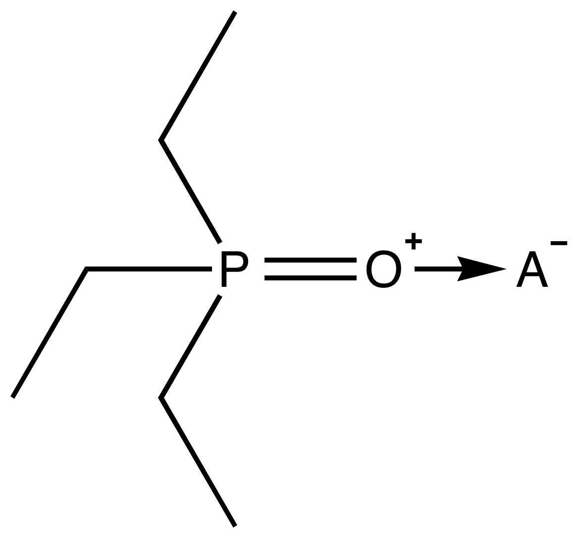 Skeletal structure of triethyl phosphite complexed with a Lewis acid